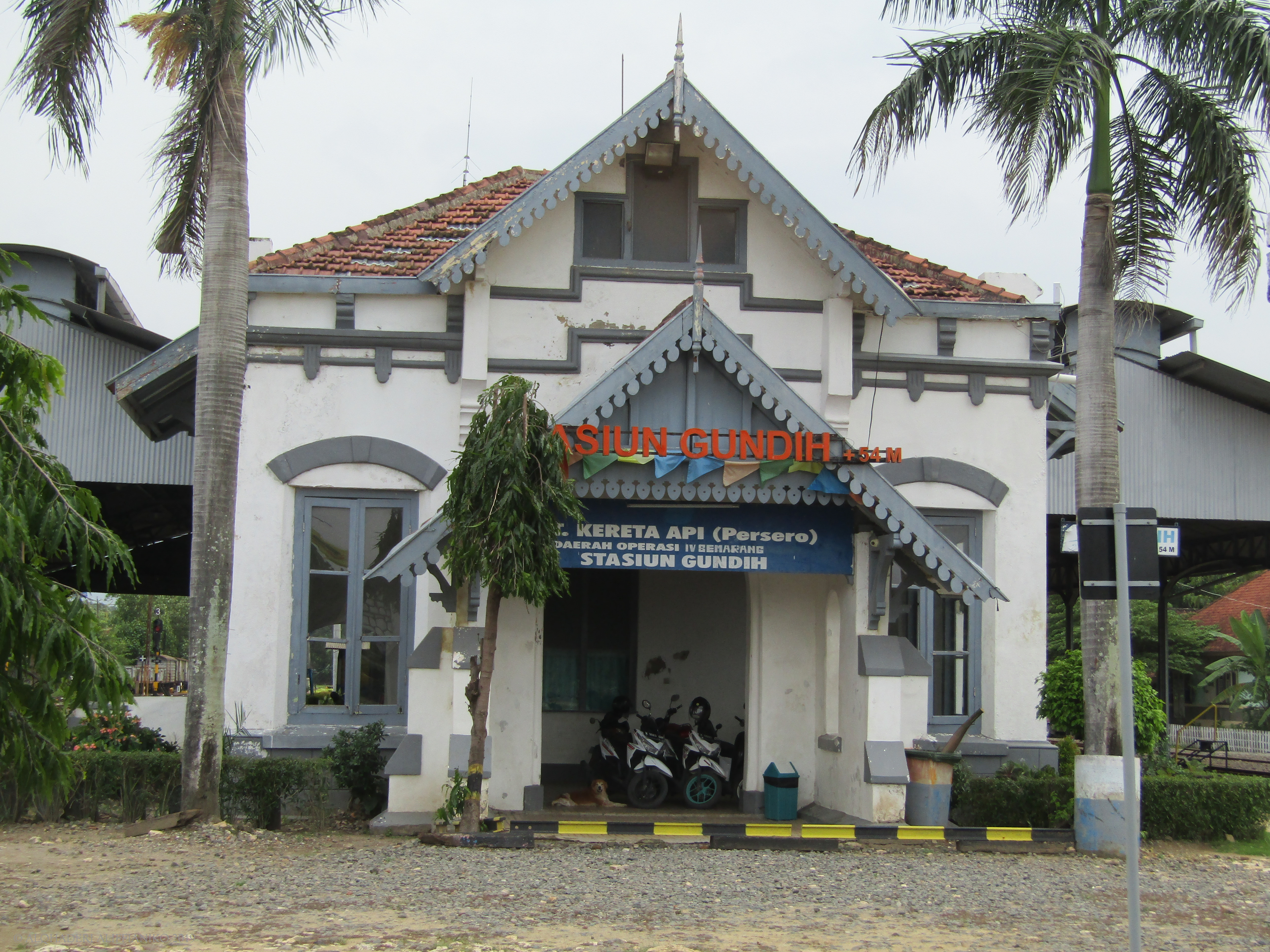 Front of Gundih Station, 2019